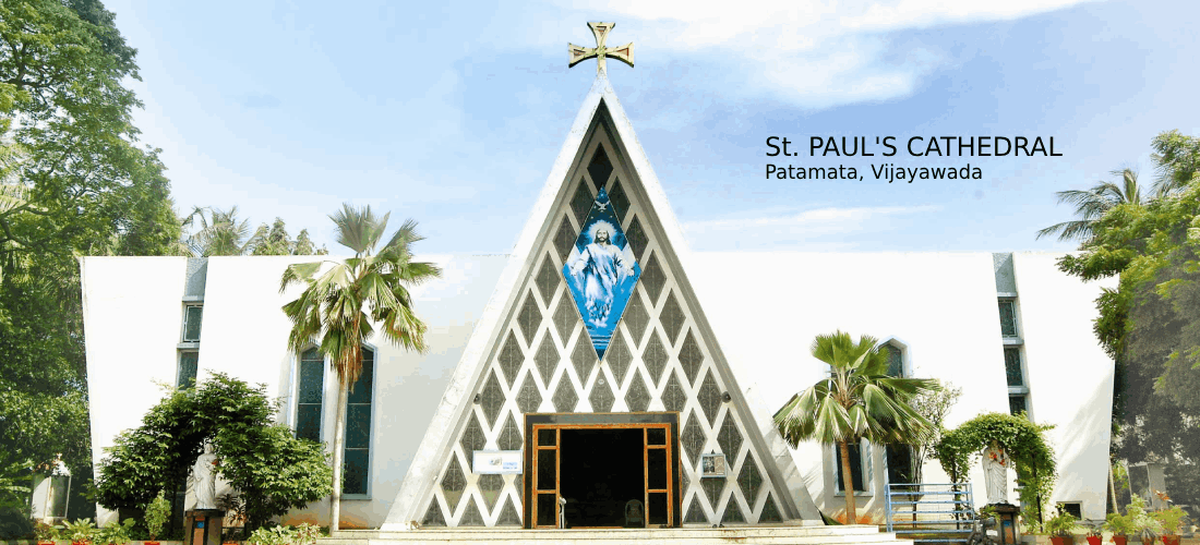 St.Pauls Cathedral, Vijayawada